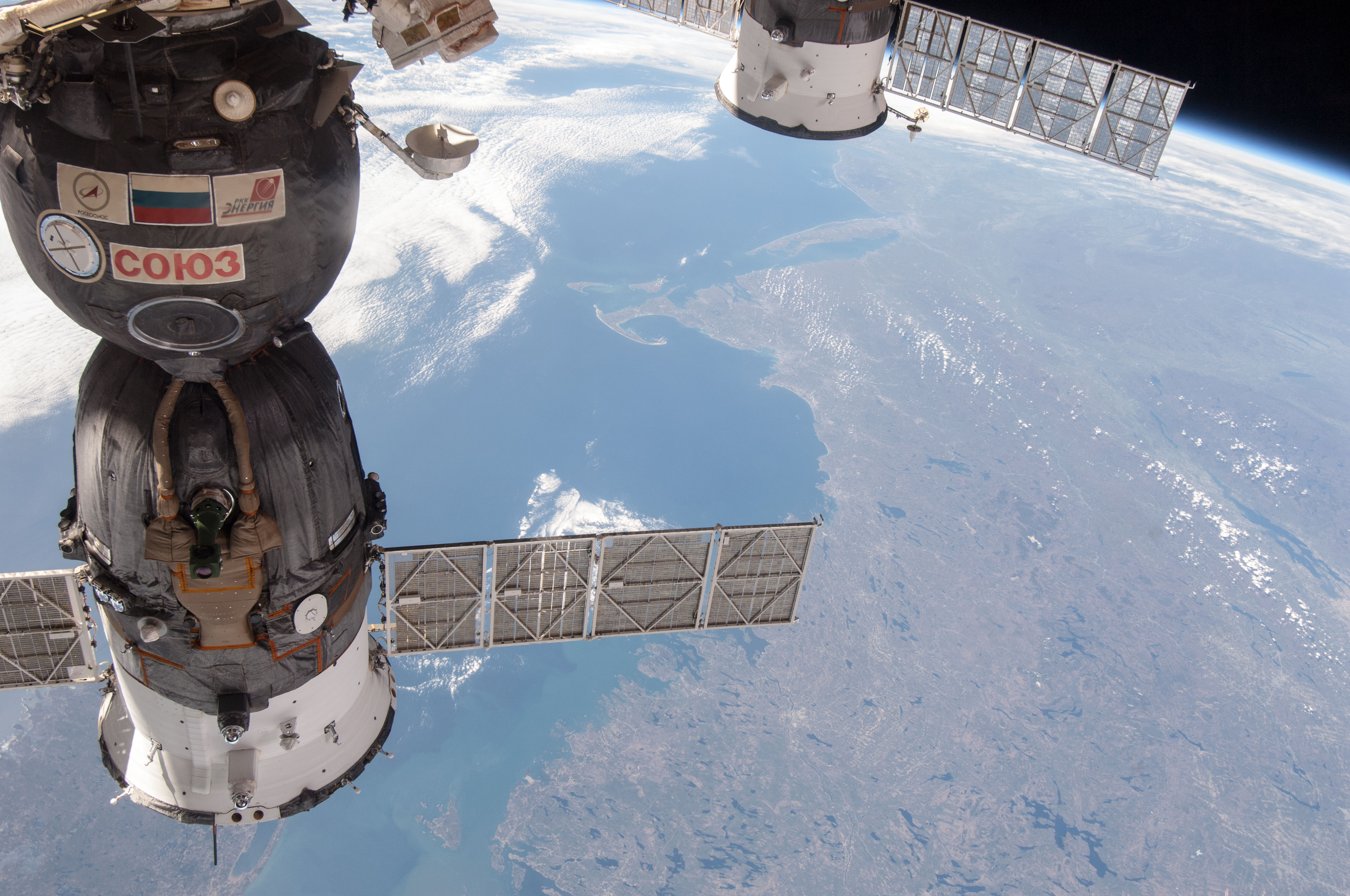 One of the Expedition 35 crew members aboard the Earth-orbiting International Space Station photographed this scene on May 4, 2013. A long stretch of the Atlantic coast of Canada (to the Labrador Sea) and the northeastern U.S. forms the backdrop for a medium close-up of a docked Russian Soyuz spacecraft and the solar panel of a Russian Progress cargo carrier. Cape Cod and Long Island can be delineated at upper center of the frame.